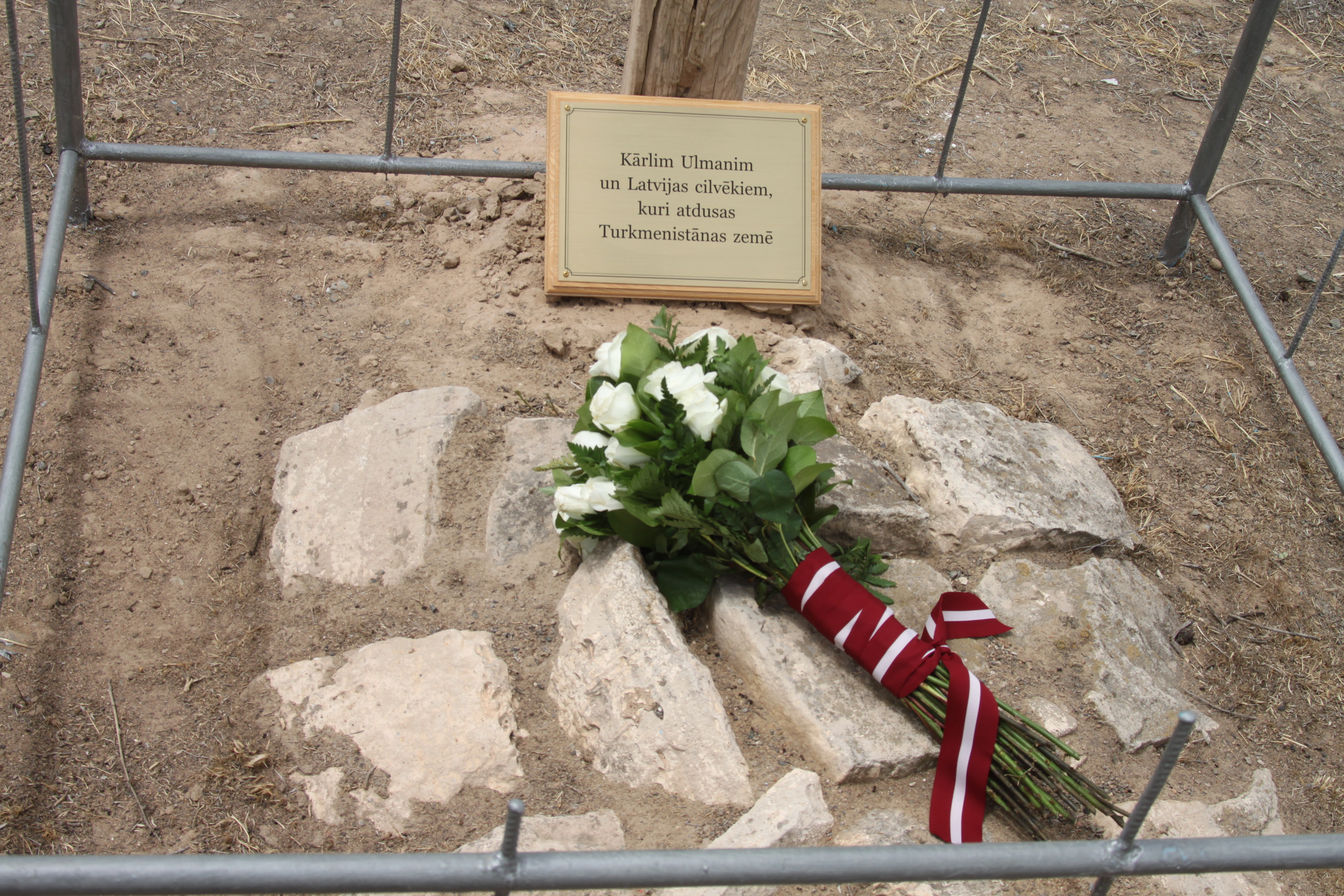 Turkmenbashi Place to tribute Karlis Ulmanis 740